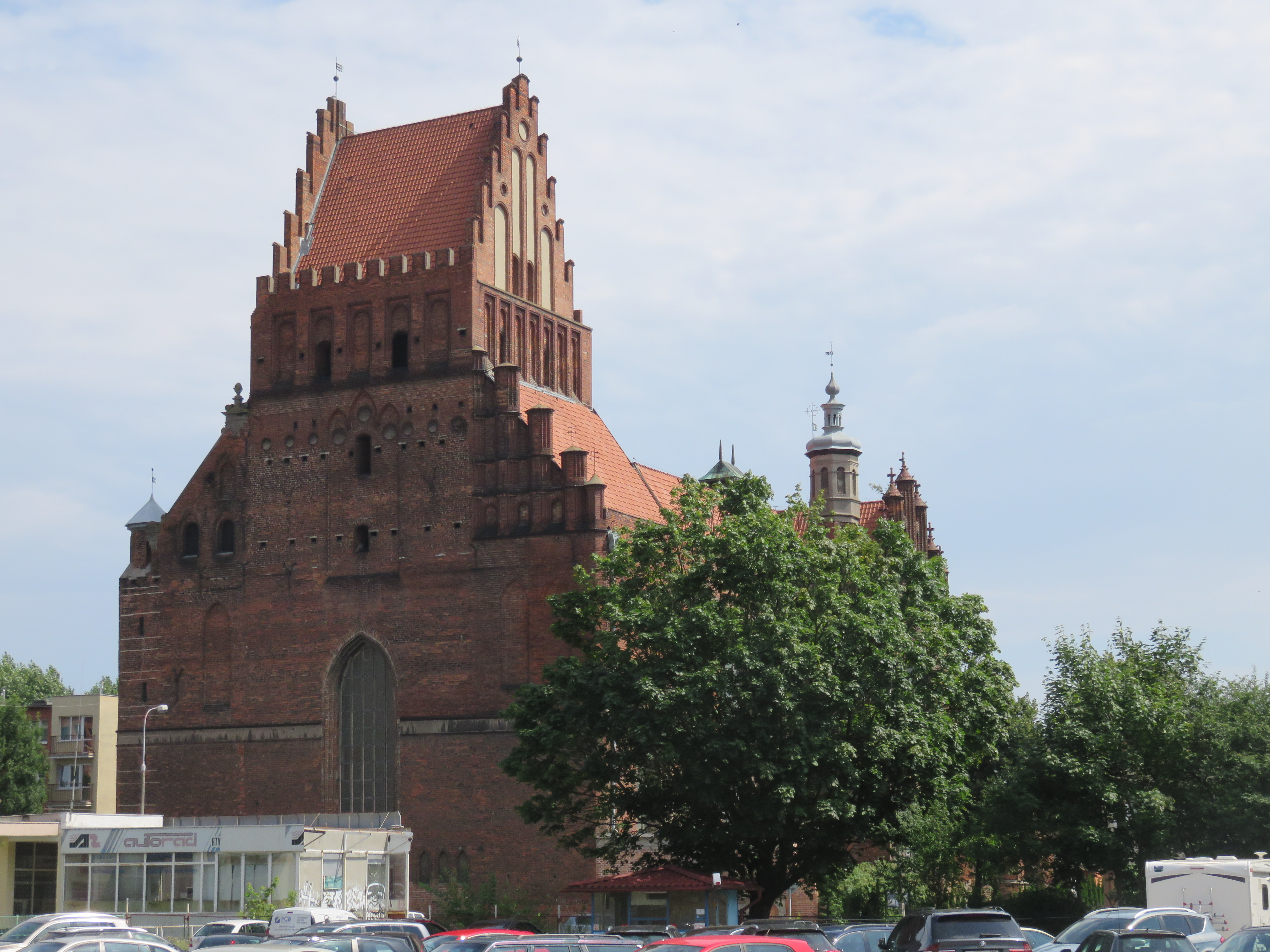 St. Peter and Paul Church in Gdansk